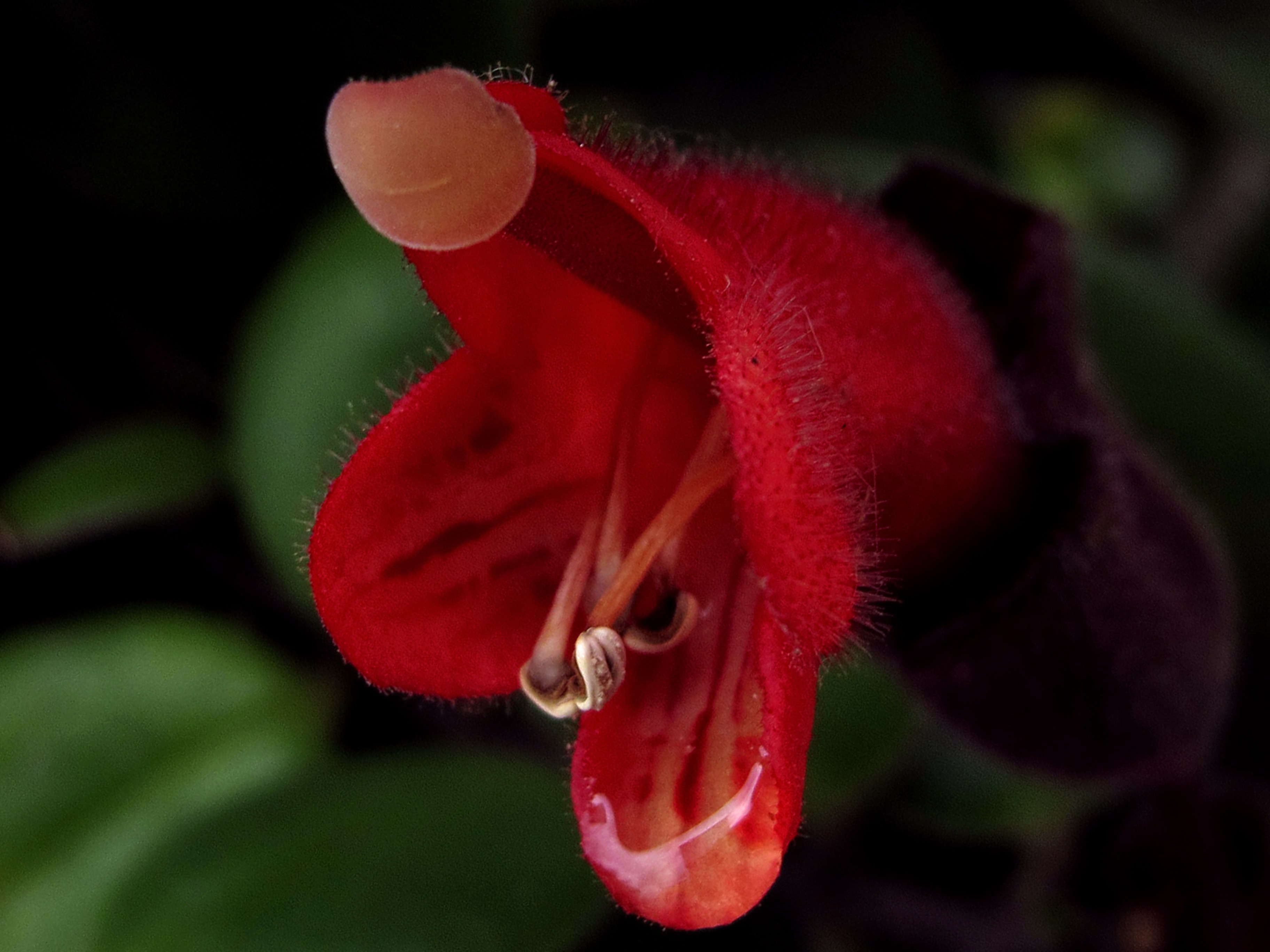 Aeschynanthus radicans